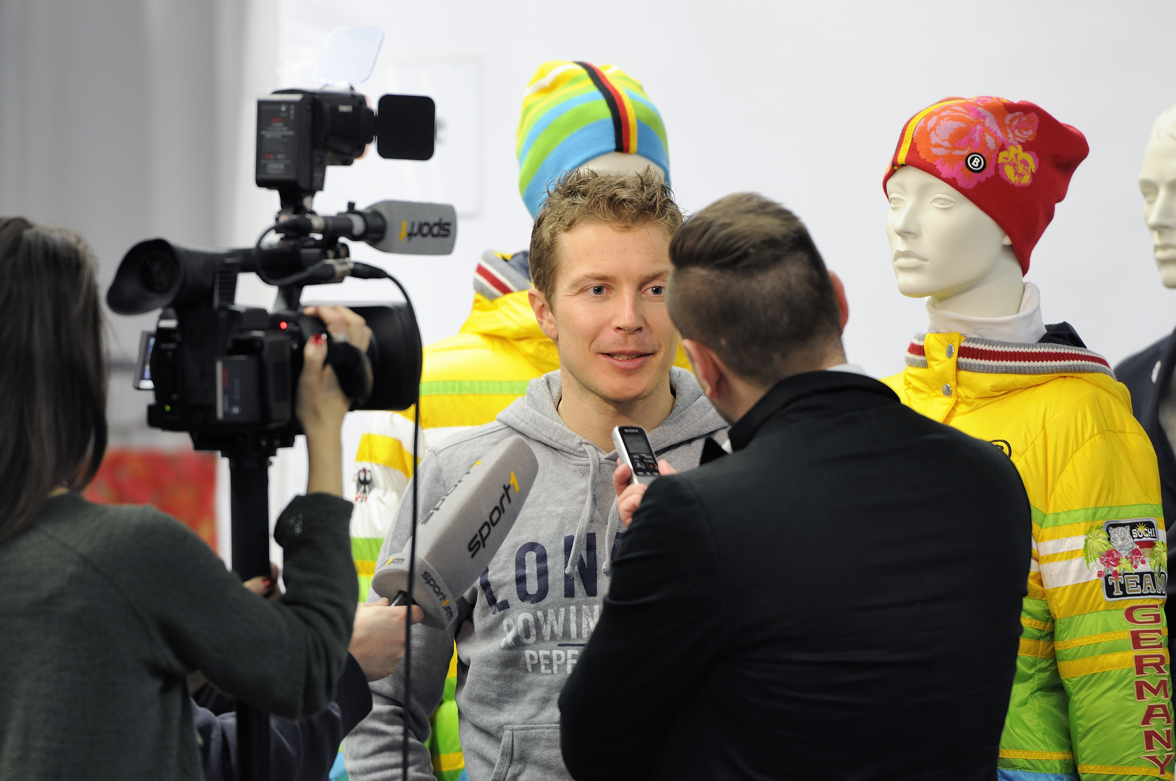 Picture taken in Erding during the investiture of the 2014 German olympic team (project). Media.